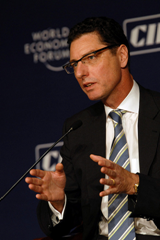 Photo of Wolfgang Lechmacher at World Economic Forum's India Economic Summit 2008